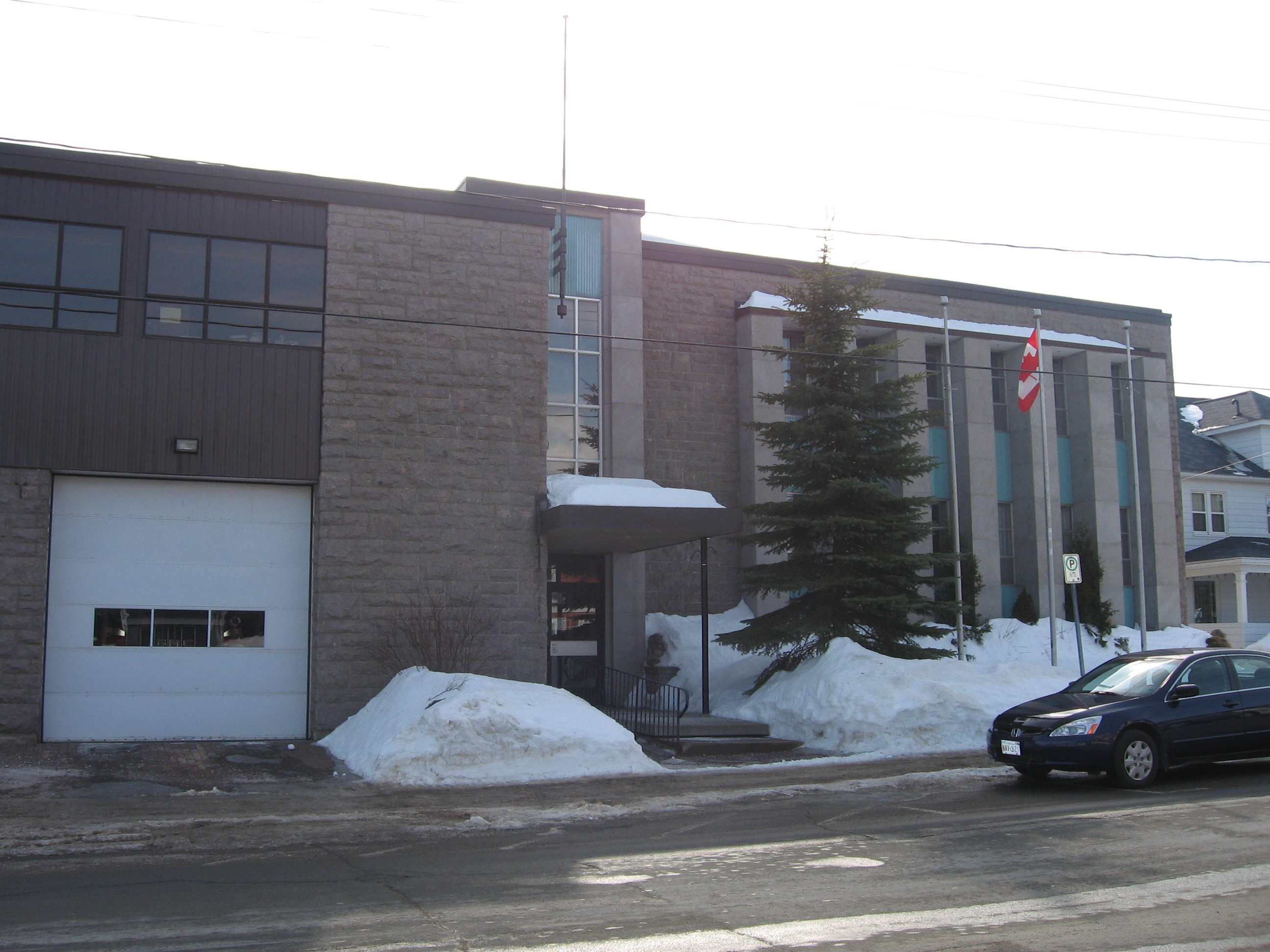 Downtowwn fire station (former city hall) in Bathurst, New Brunswick